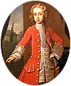 Portrait of Henry Vane, 2nd Earl of Darlington (1726-1792)